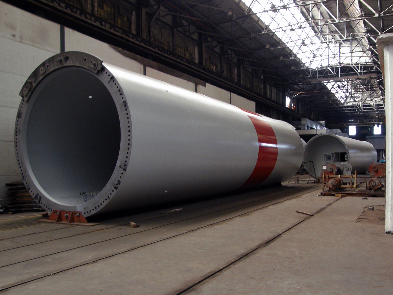 recently painted sections of wind turbine tower